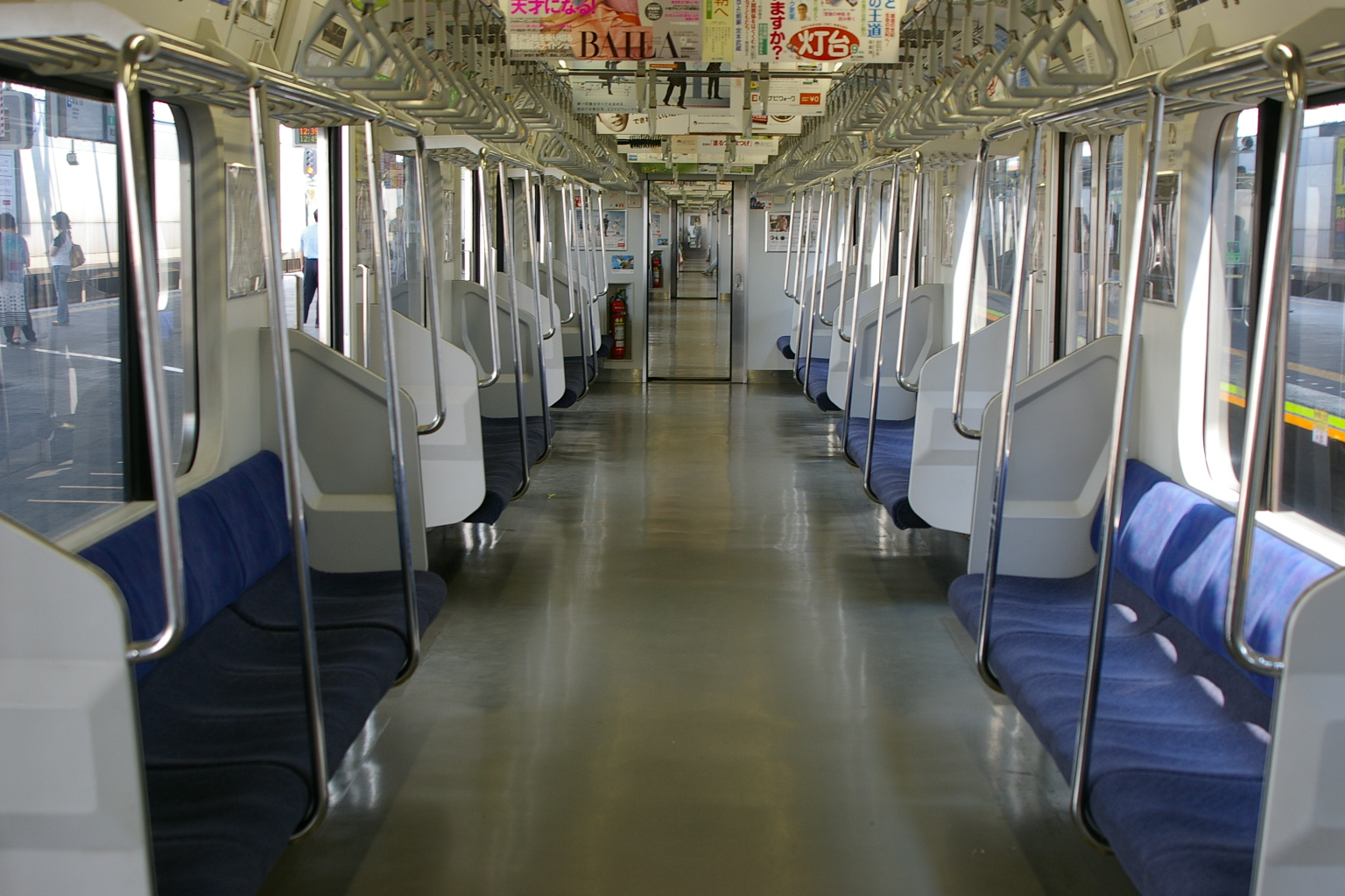 Interior of JR East 209-1000 series EMU, at Yoyogi-Uehara Station